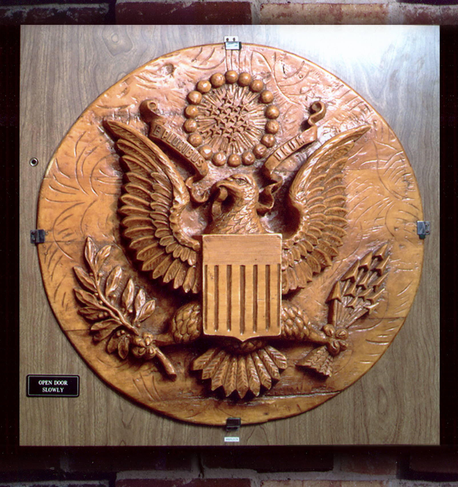 Great Seal Bug from NSA archives